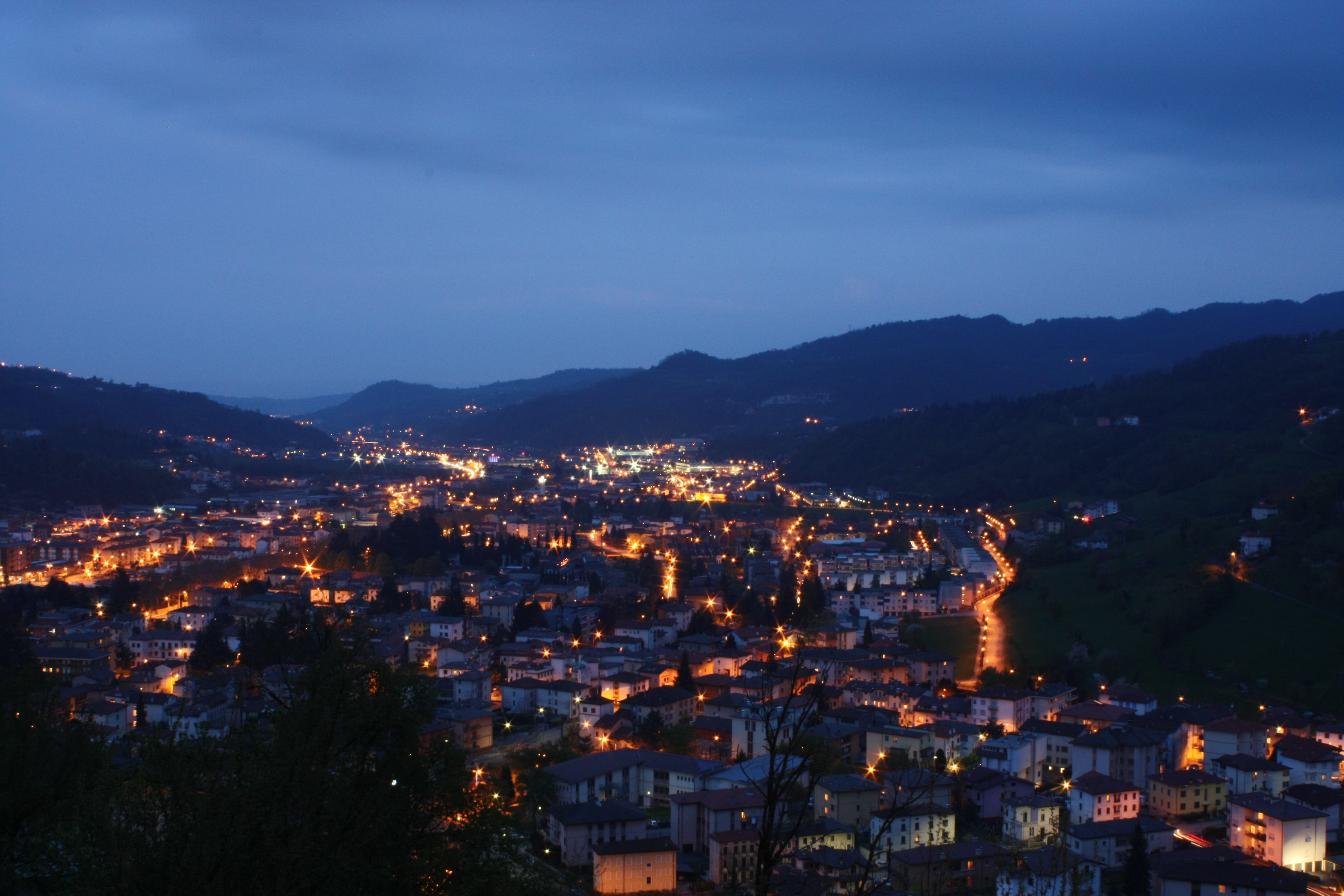 Photo of Valdagno by night